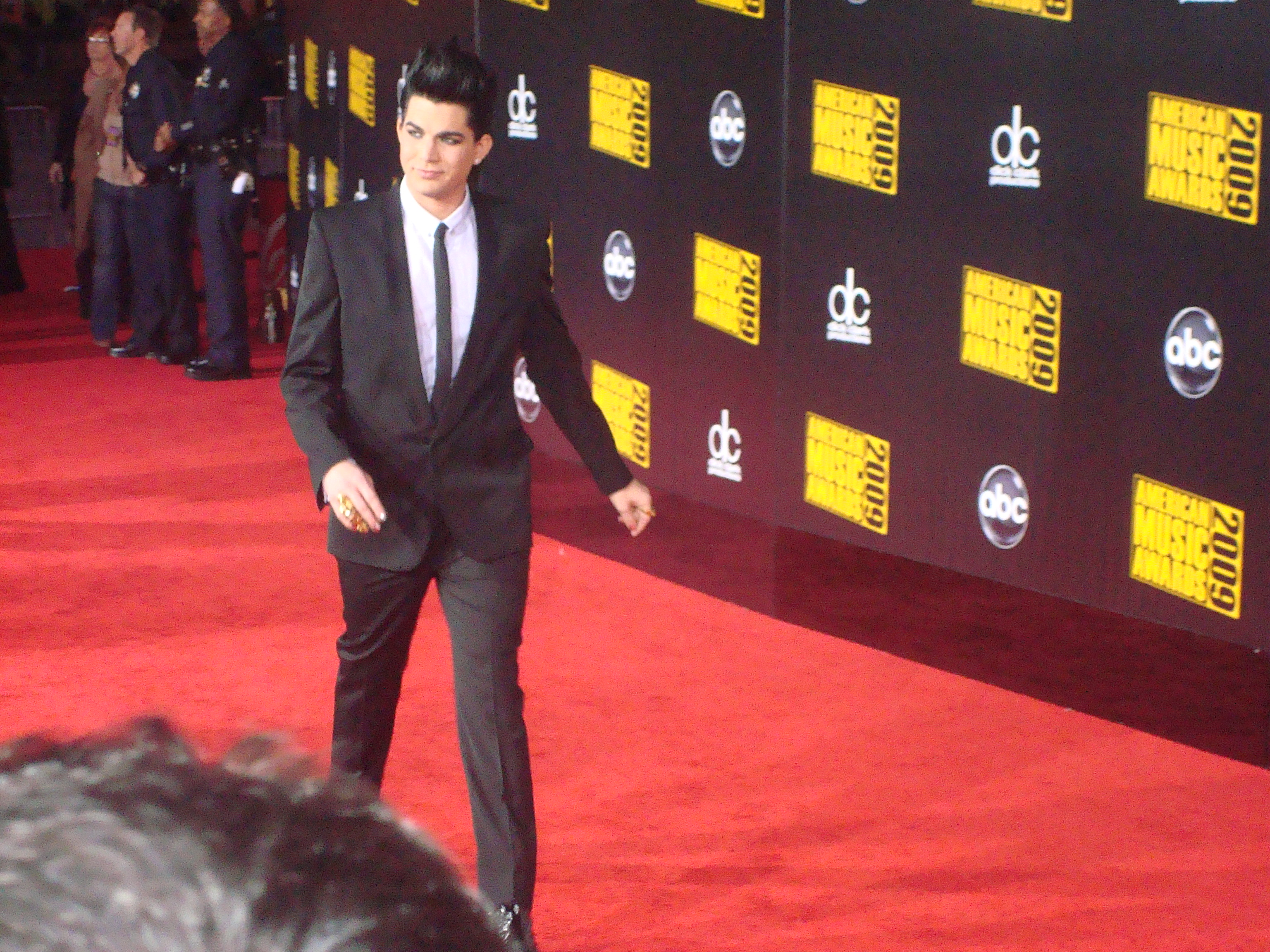 Adam Lambert at 2009 American Music Awards.